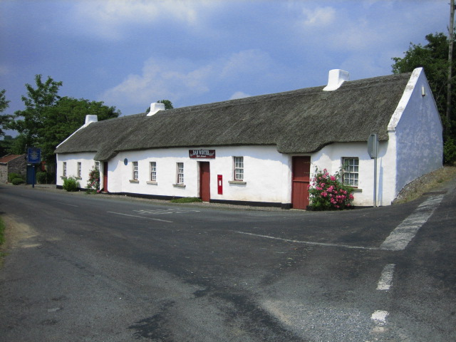 Dan Winter's Cottage. Lived in by his son this house was burned at the battle See other entry for this square.